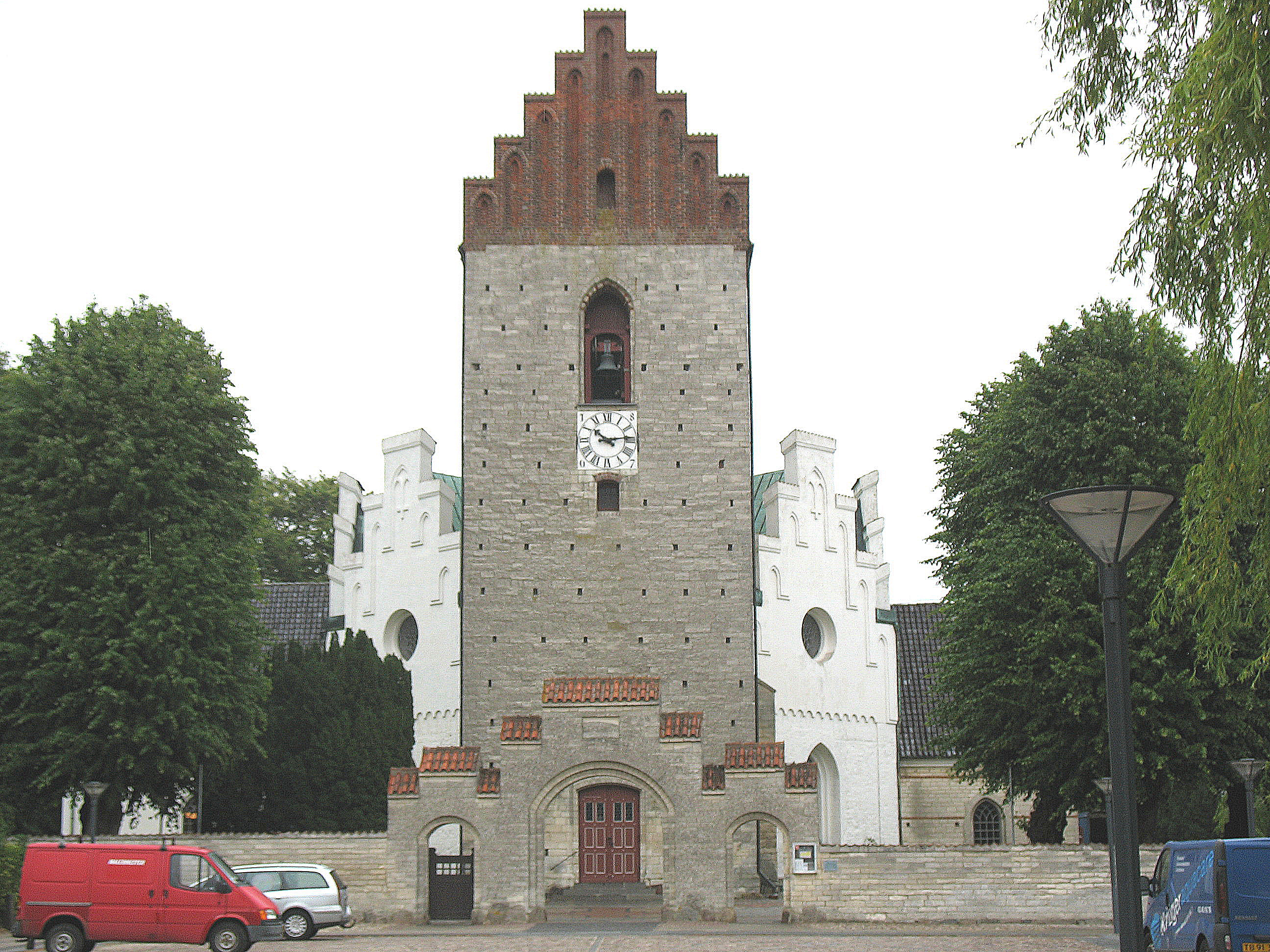 The church "Sankt Katharina Kirke" in the small town "Store Heddinge" located in South Zealand, east Denmark.